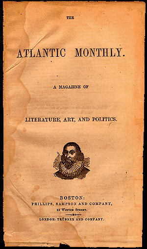 First cover of The Atlantic Monthly magazine. November 1857.